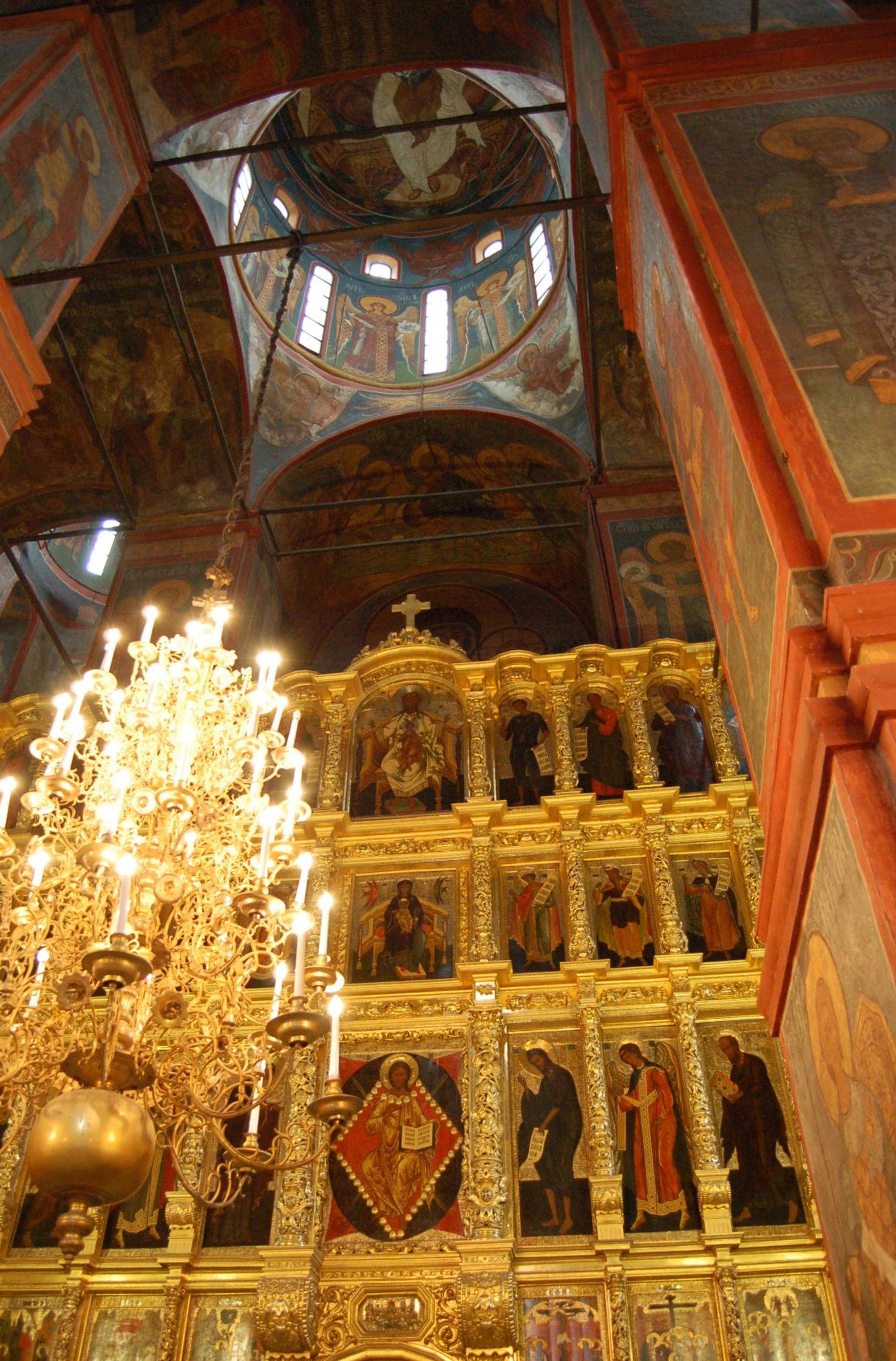 Moscow Churches, photographed September 2015 Novodevitchy Convent